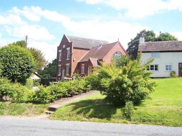 The chapel at Englesea-brook No ordinary chapel, this is "the birthplace of Primitive Methodism". For more information, (By the way, the odd spelling/punctuation of the village name is correct.)